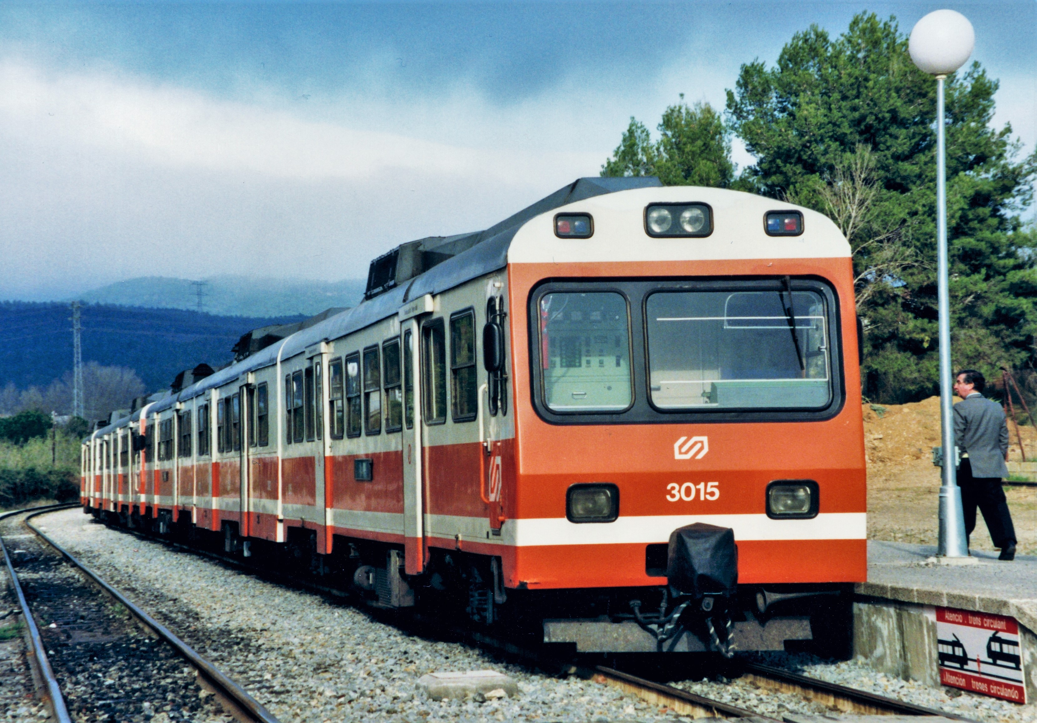 Rear view of two Class 3000 DMUs of FGC leaving the station of Piera, working the train P503 from Barcelona to Igualada.